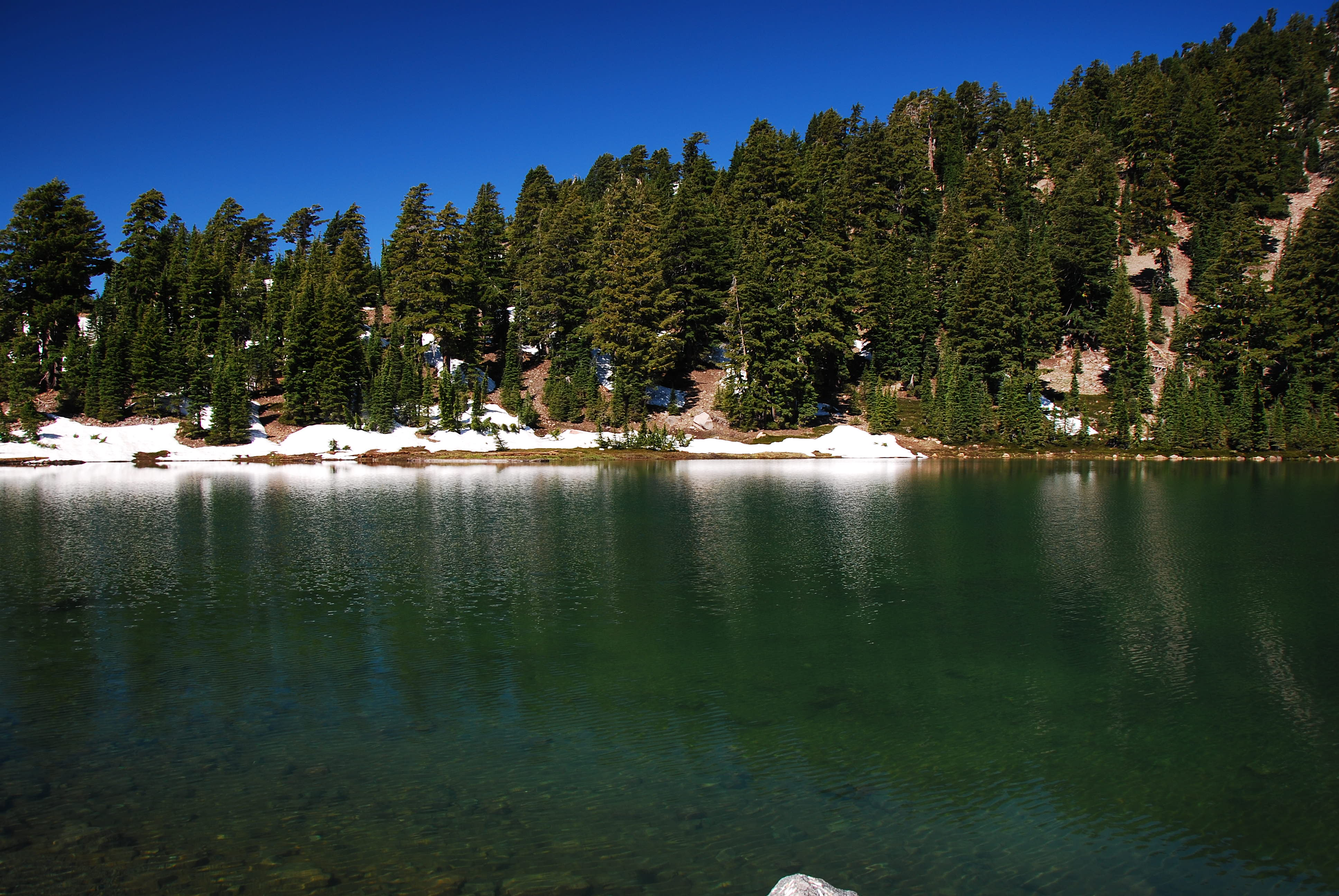 Emerald Lake near Lassen Peak in Lassen Volcanic National Park. The green color comes from the algae. It had been stocked with rainbow trout, but park officials are trying to eradicate the fish to help increase the population of the Cascades Frog.